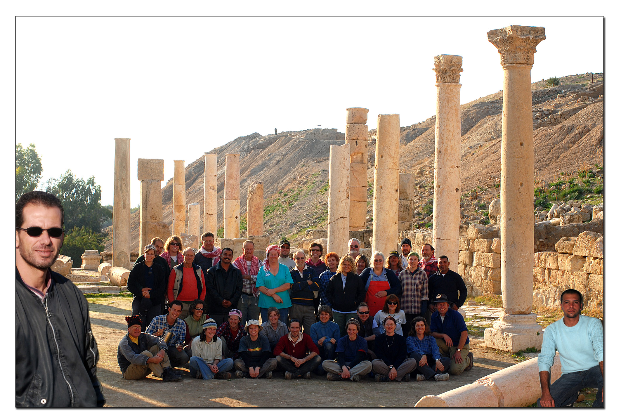 A composite photograph showing the 2007 Australian excavation team at Pella in Jordan. The photo is taken inside a Byzantine Period basilica, while in the background can be seen the steeply rising contours of the main mound or Tell at Pella.